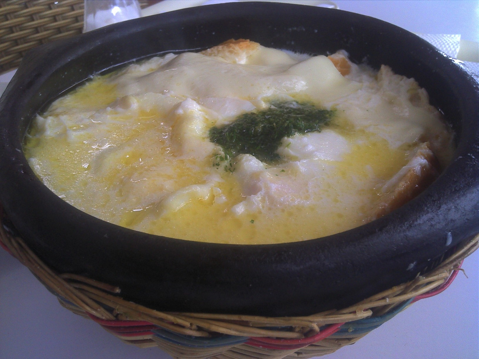 Changua soup as served in many "Panaderias" in Bogota, Colombia